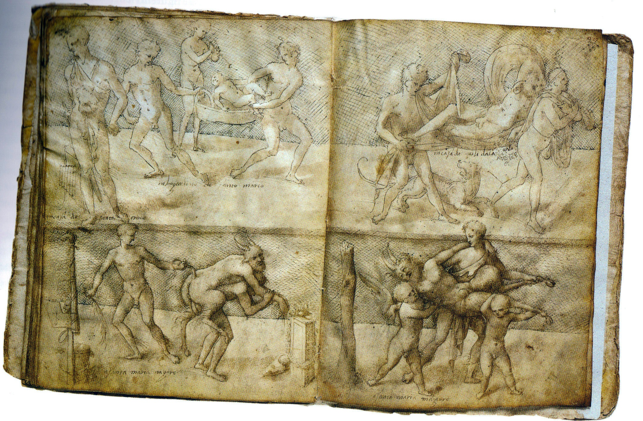 Codex Wolfegg (drawings), fol.s 47v, 48r